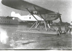 Italian Breda A.7Idro reconnaissance floatplane